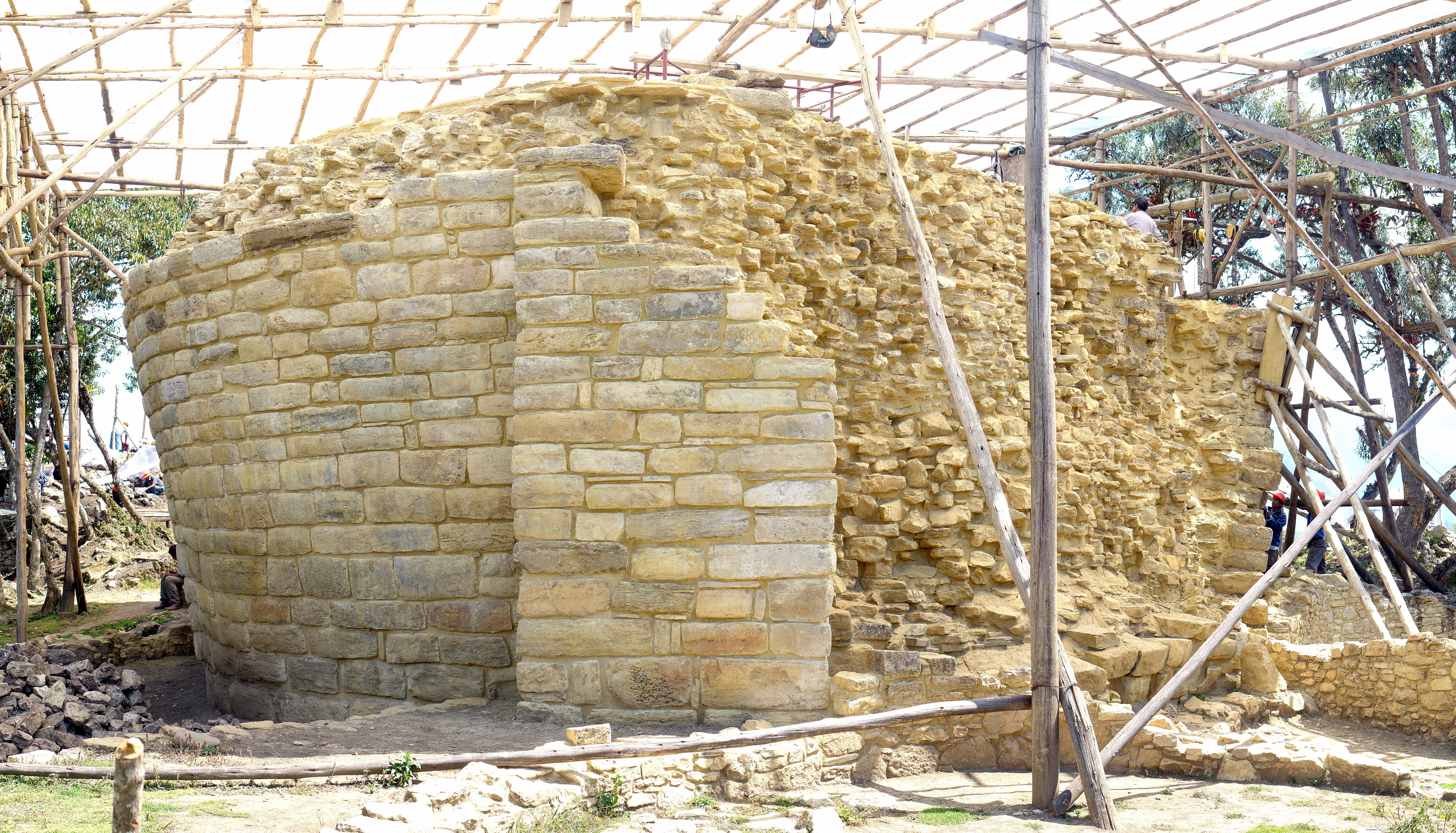 El Tintero, a religious construction empty in the center on the Kuelap forteress